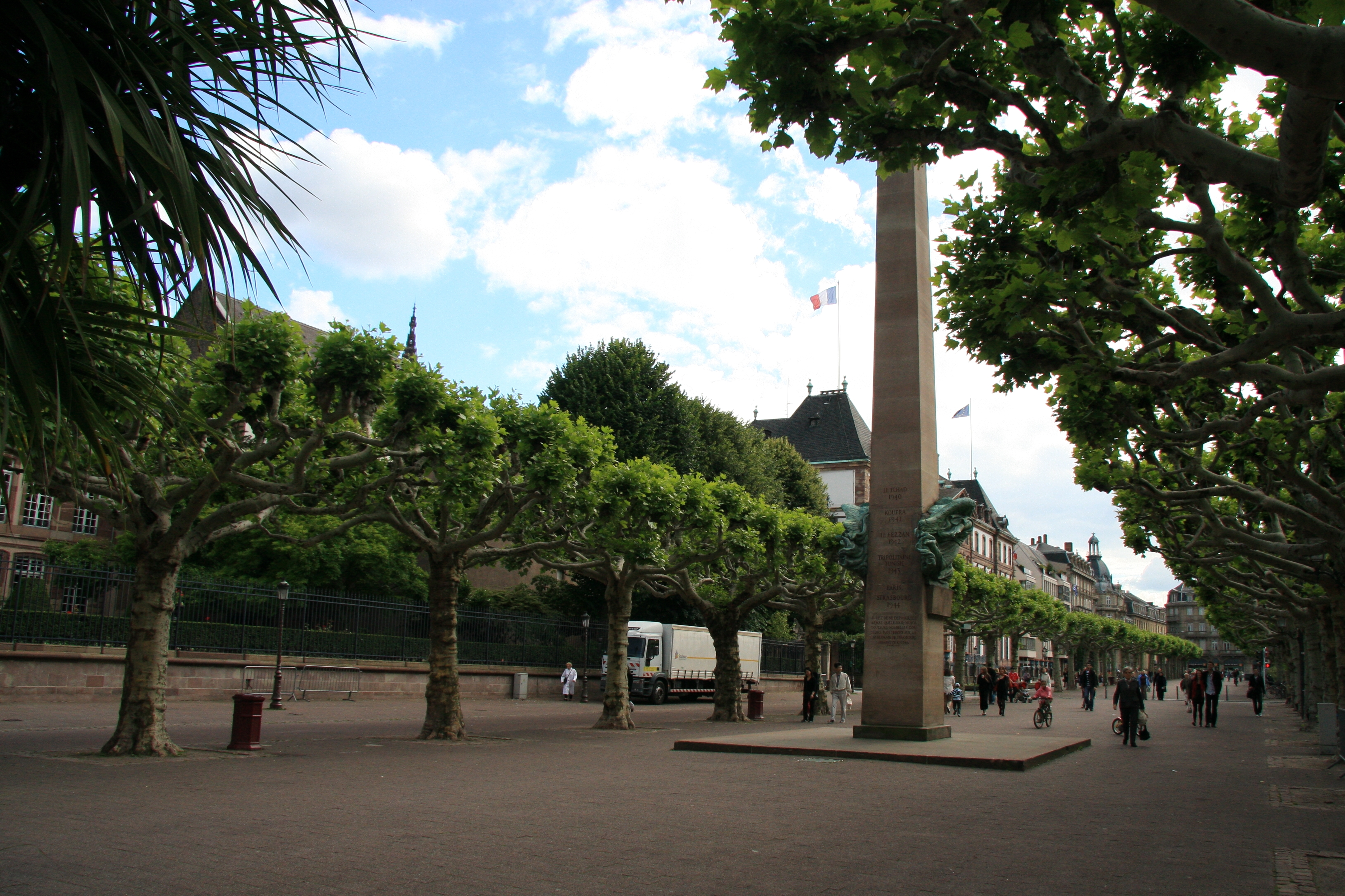 Place Broglie